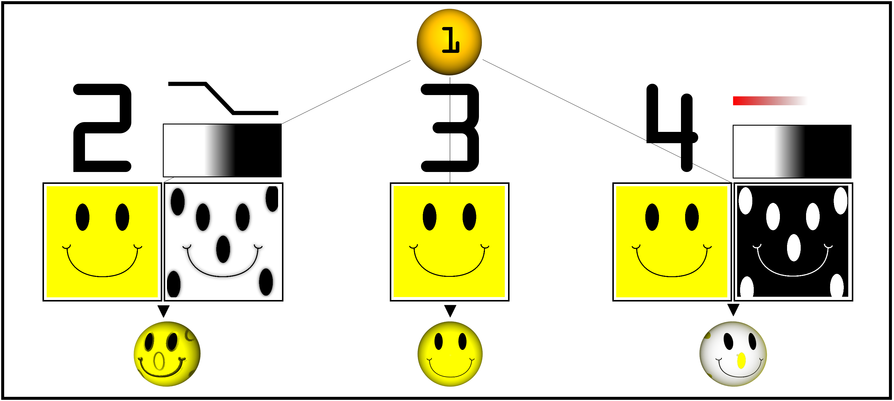 Illustration of texture mapping with bump map and opacity maps 1. Untextured sphere 2. Texture and bump maps 3. Texture map only 4. Opacity and texture maps